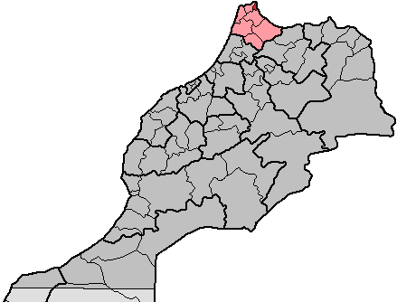 Location of the préfecure M'diq-Fnideq within the region Tanger-Tétouan, Morocco. In total, Morocco has 16 regions, subdivided into 62 provinces and 13 prefectures.